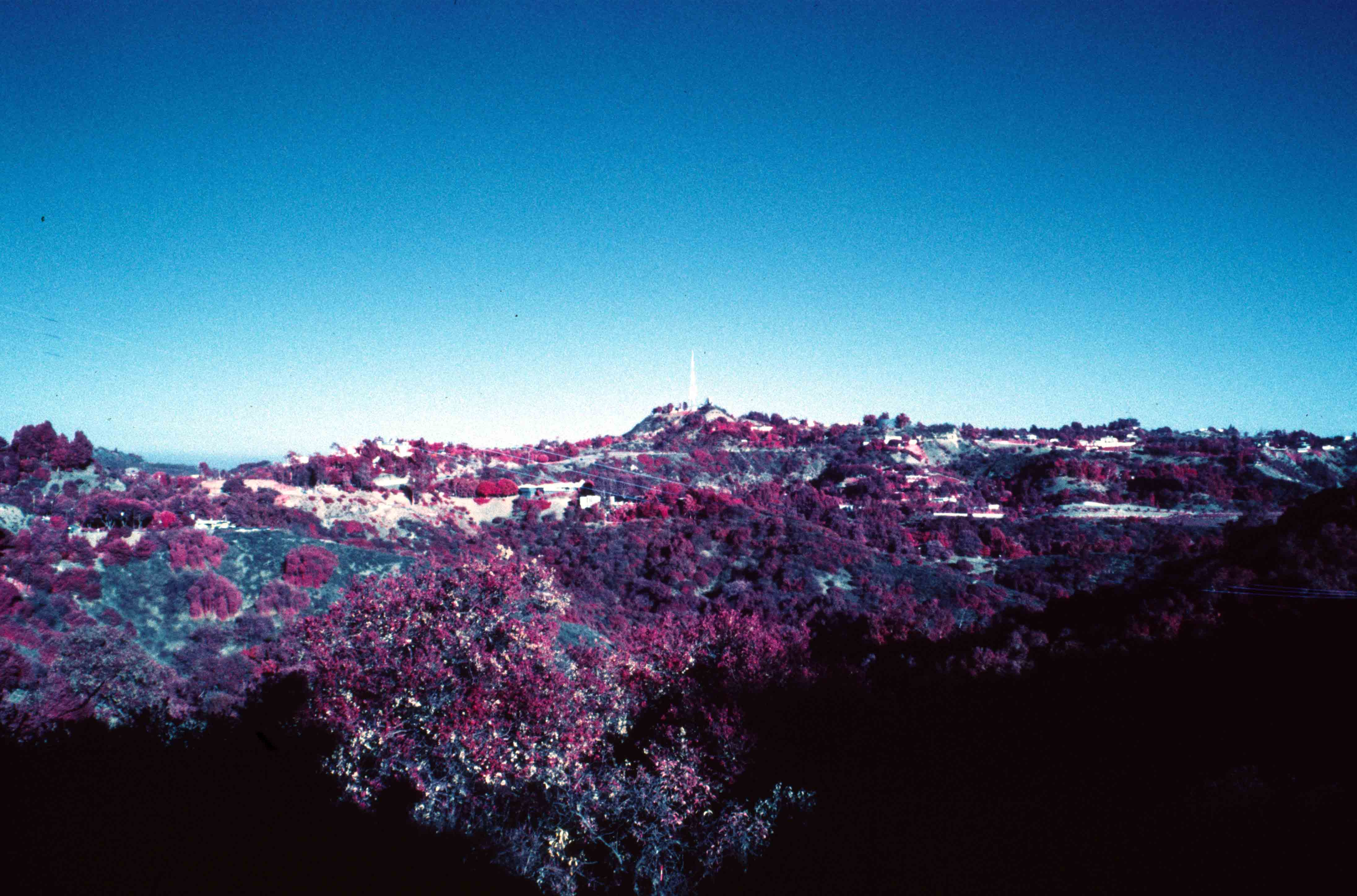 View of the Hollywood Hills, part of the Santa Monica Mountains in Los Angeles. Kodak Infrared color slide film, no filter used and developed with E-6 process.